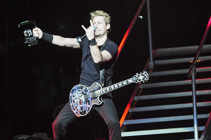 Do Not Publish